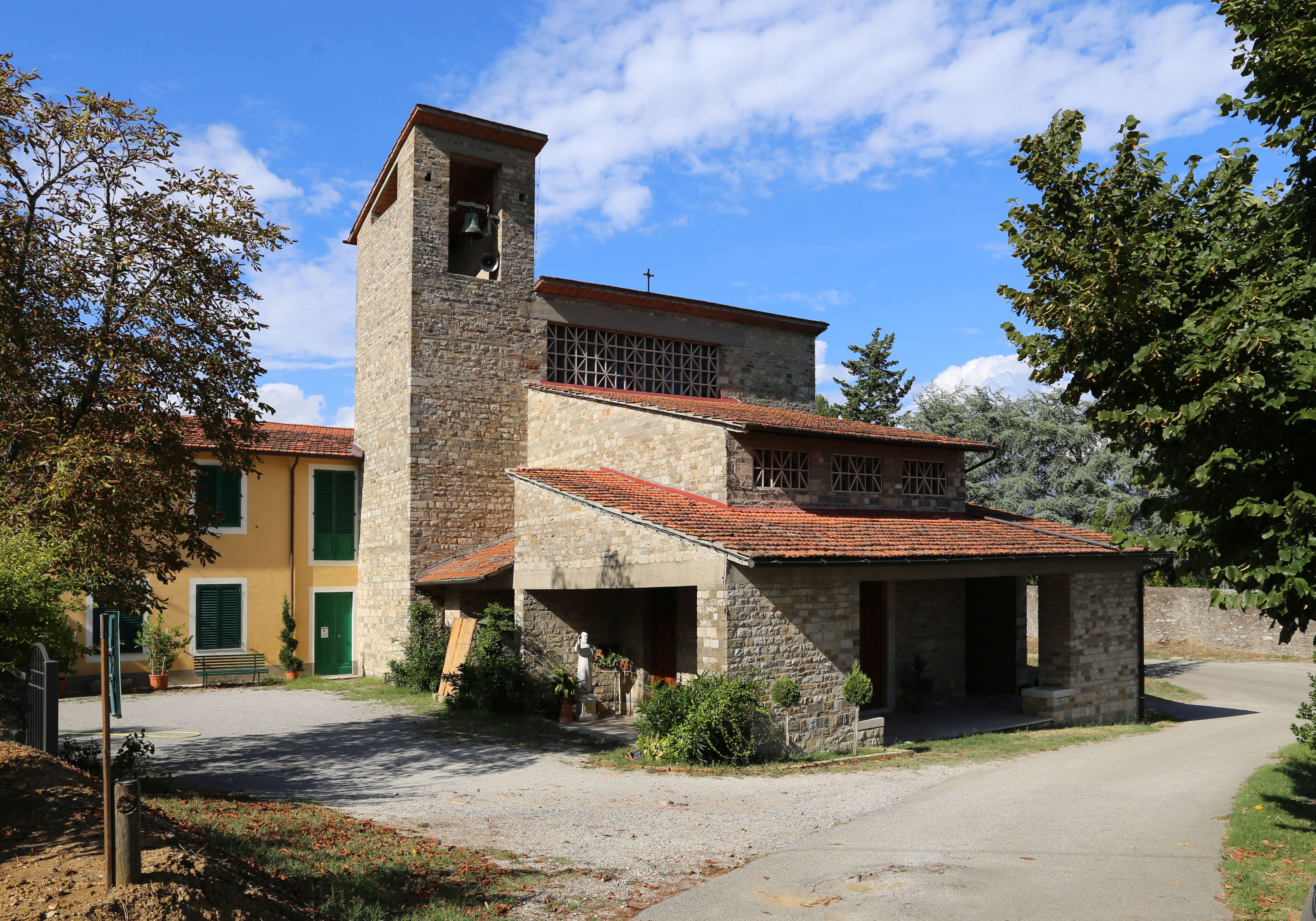 Santi Pietro e Girolamo (Pistoia)